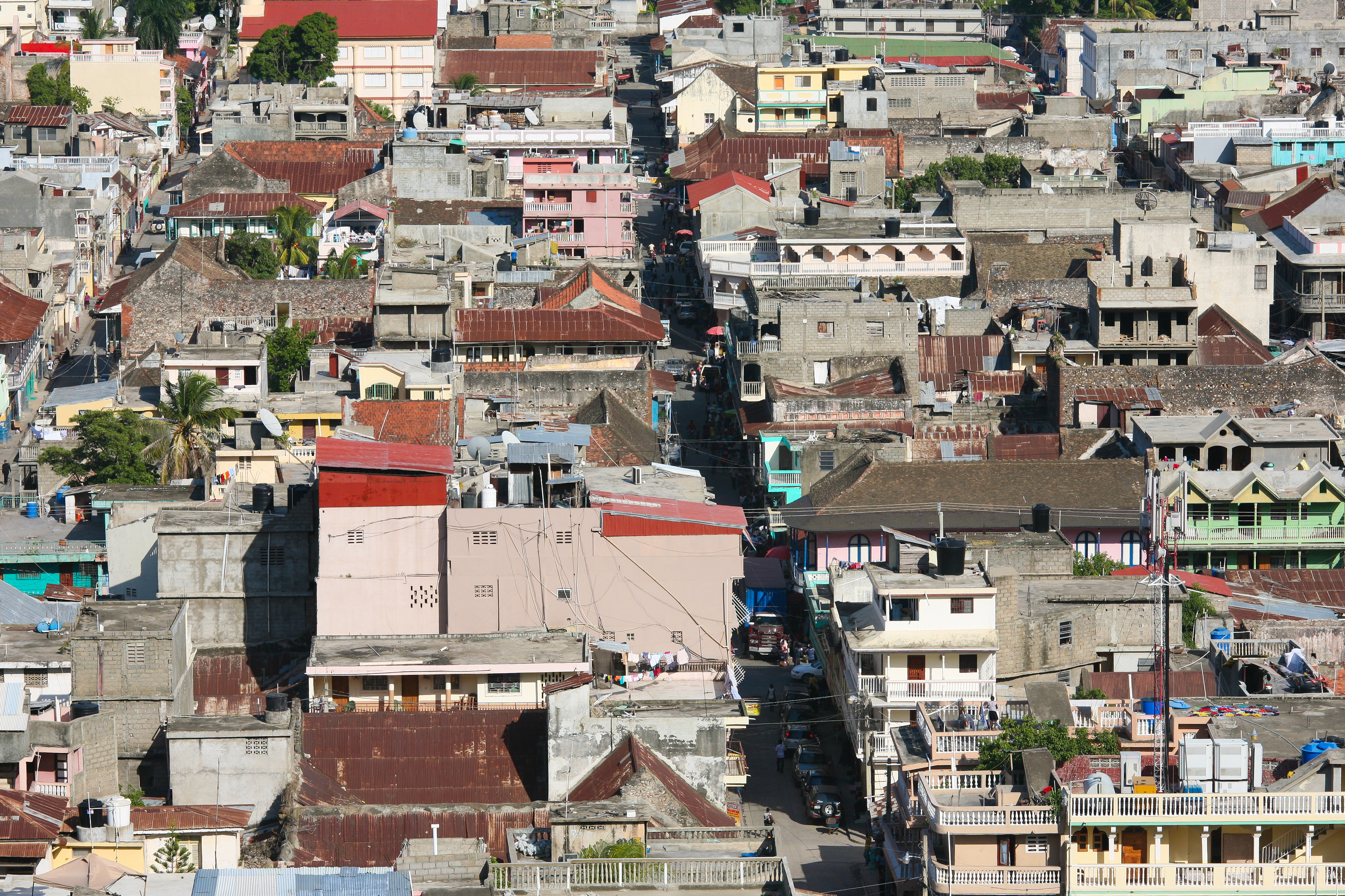 Overlooking the Streets of Cap Haitien, Haiti